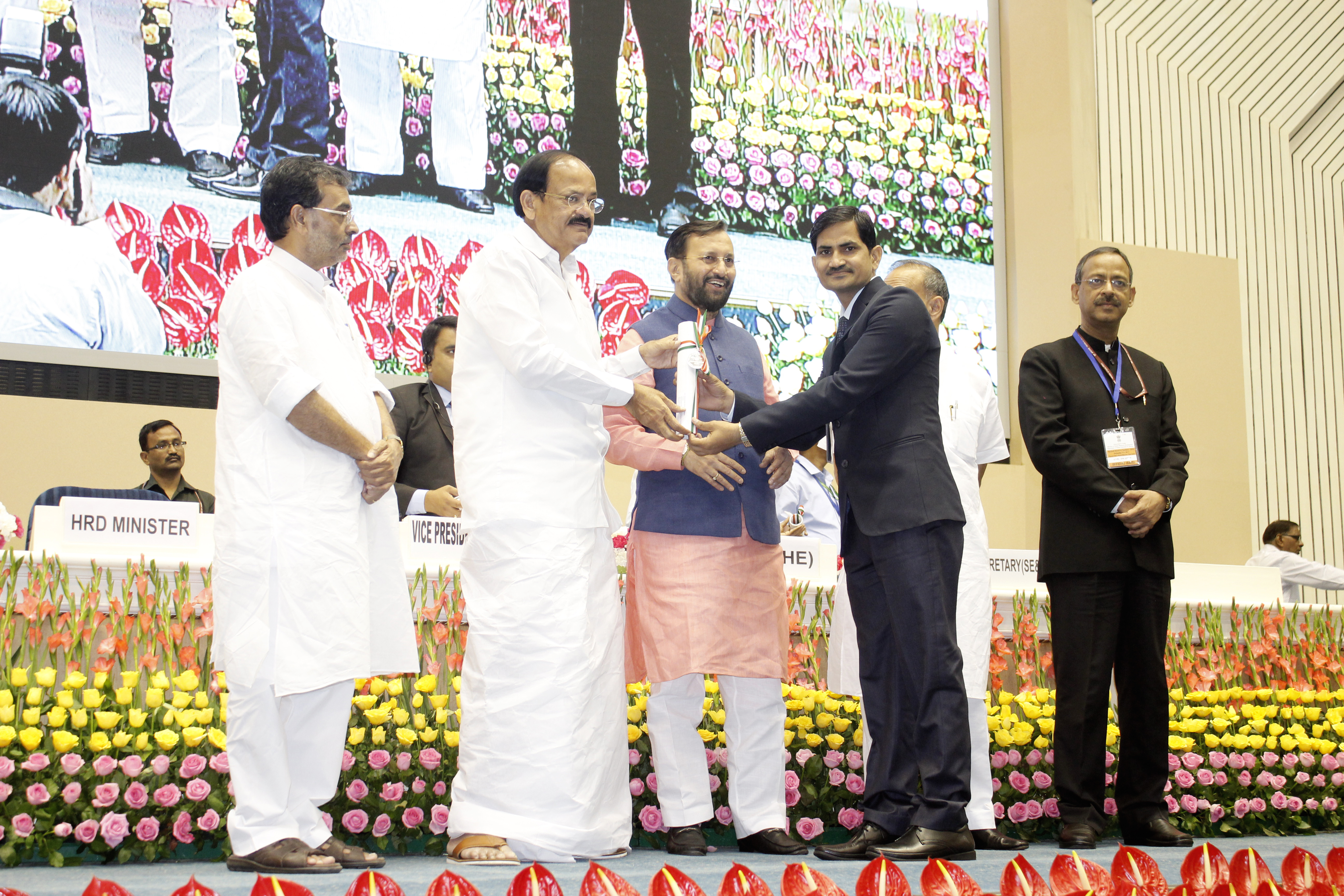 Imran Khan receiving National ICT Award from Vice President India